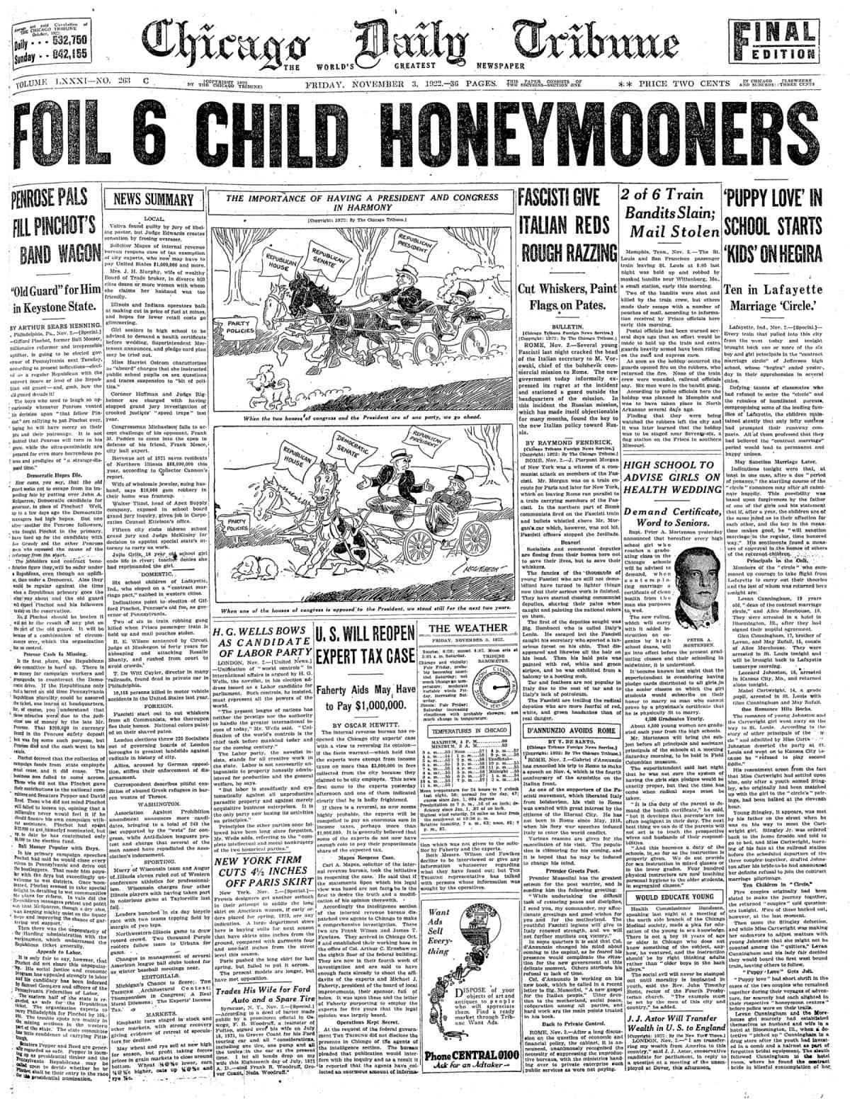 November 3, 1922 cover page of the Chicago Daily Tribune.